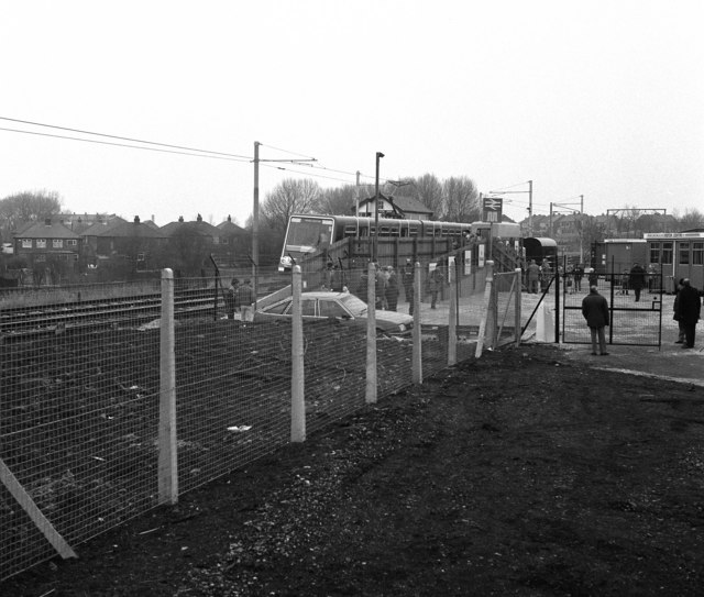 Debdale Park station. General view during light rail demonstration. See 1619492